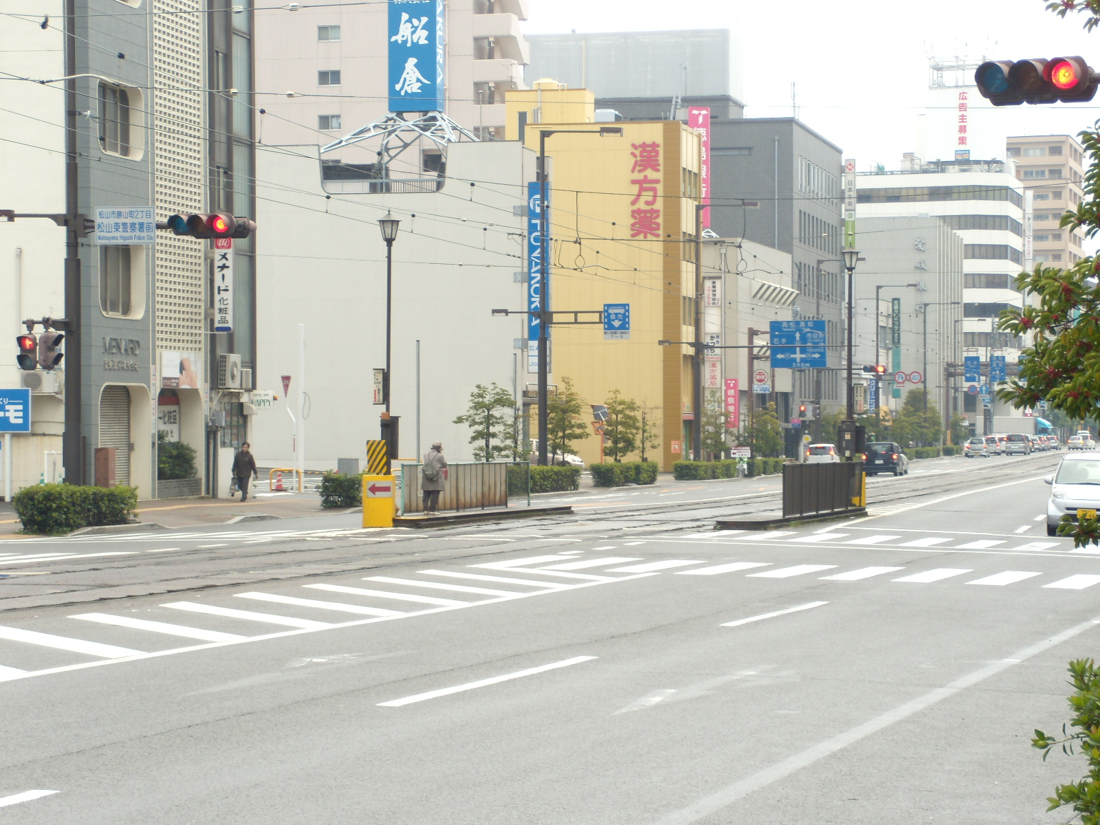 Iyo Railway Keisatsusho-mae station